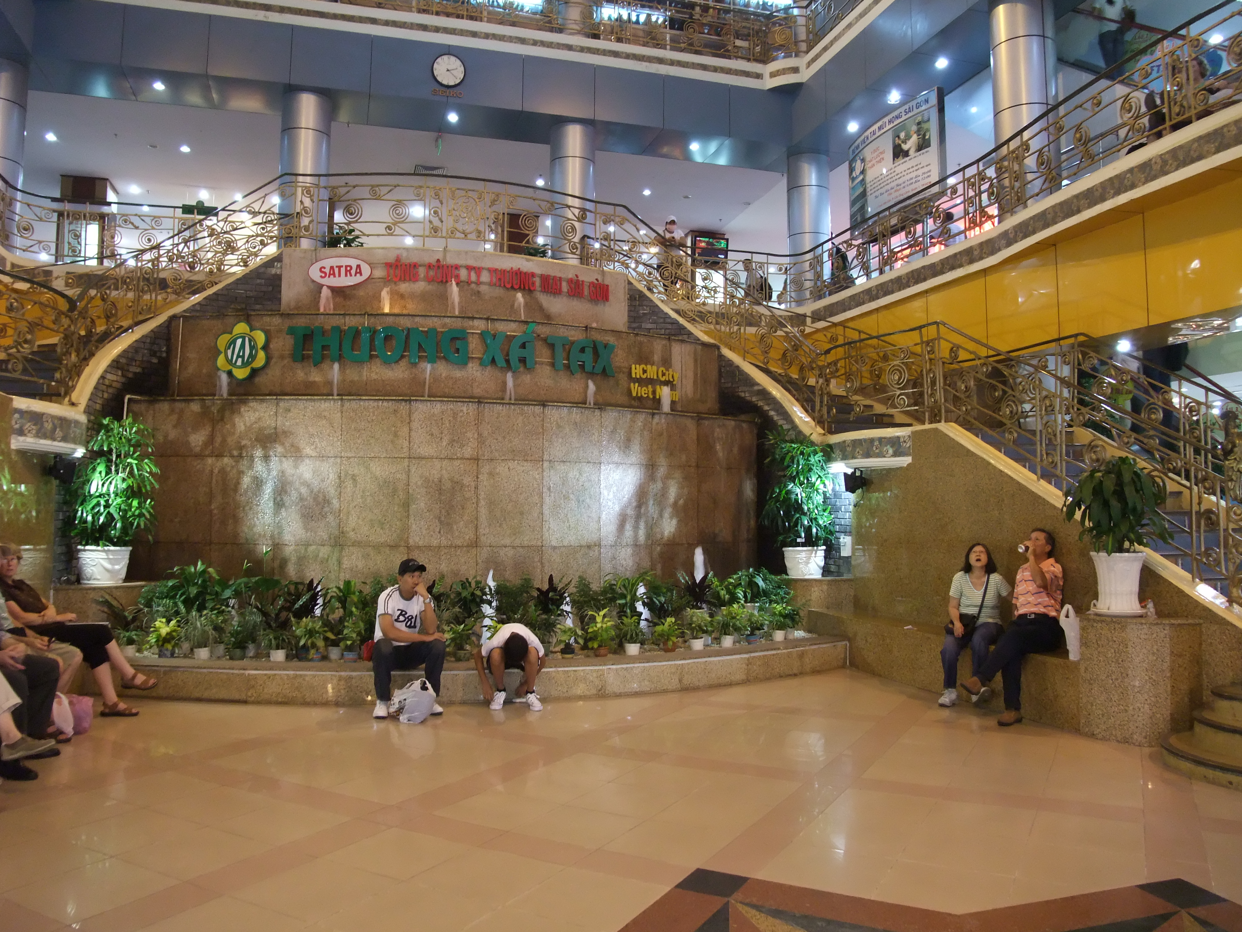 A shopping complex. Mum appears to be yawning as dad swigs his beer. I'm not sure if you're supposed to drink in public in Vietnam.